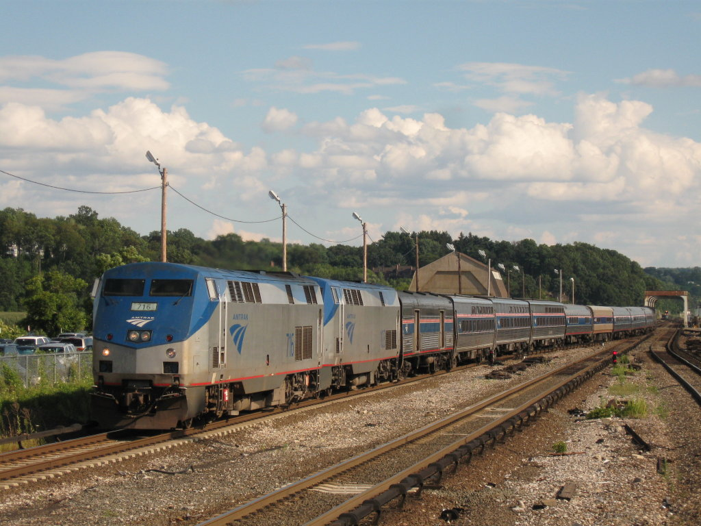 Amtrak Train #49, the Lake Shore Limited, pulls into the Croton-Harmon Station in Croton-on-Hudson, NY, having been given the road ahead of another Metro-North train.